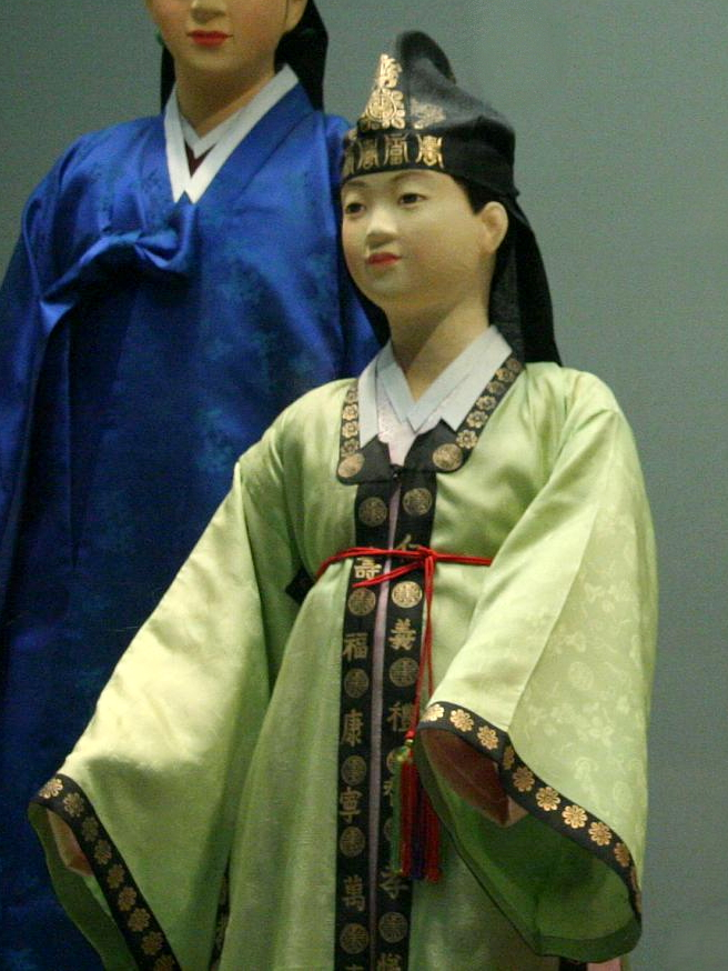 A model of a young boy during the late Joseon period wearing hanbok (traditional Korean costume) has been displayed at National Folk Museum of Korea, Seoul, South Korea. The jacket is called sagyusam and the headgear is bokgeon.